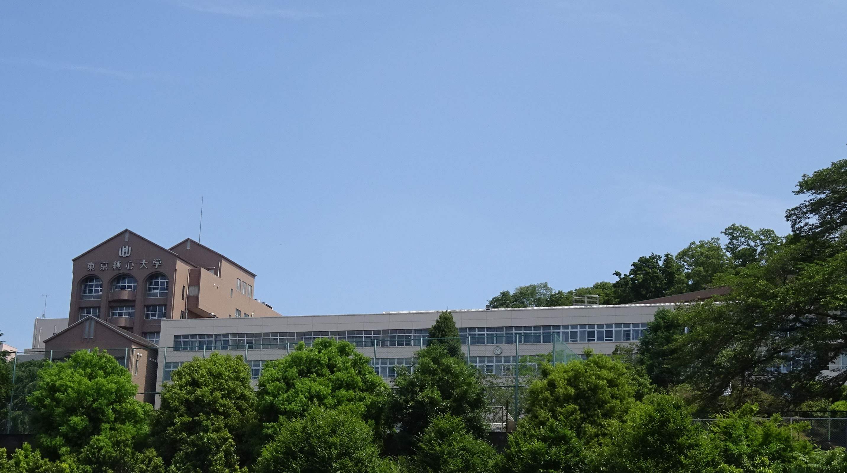 Tokyo Junshin University